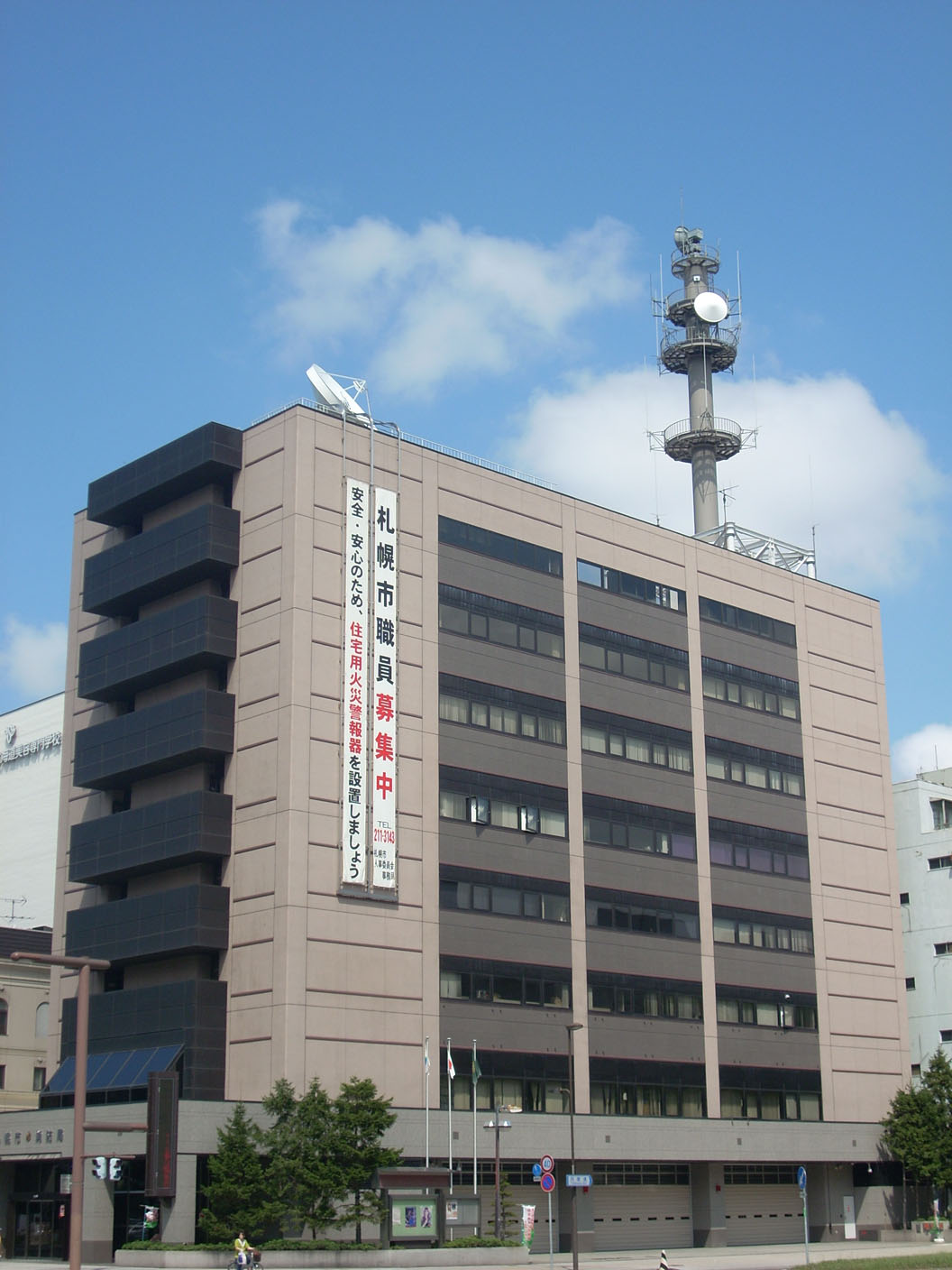 Sapporo Fire Bureau and Chuo fire station, Chuo-ku, Sapporo, Hokkaido